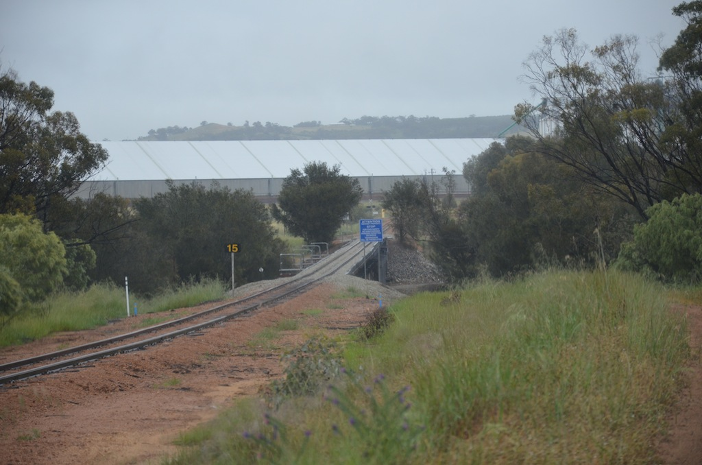 York, Western Australia - Quairading, Western Australia railway line - bridge in foreground, York Grain silo (part) at rear